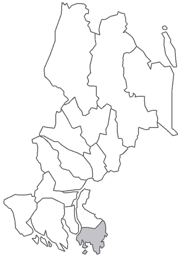 Map describing the location of Bro Hundred in Uppsala County, Sweden.